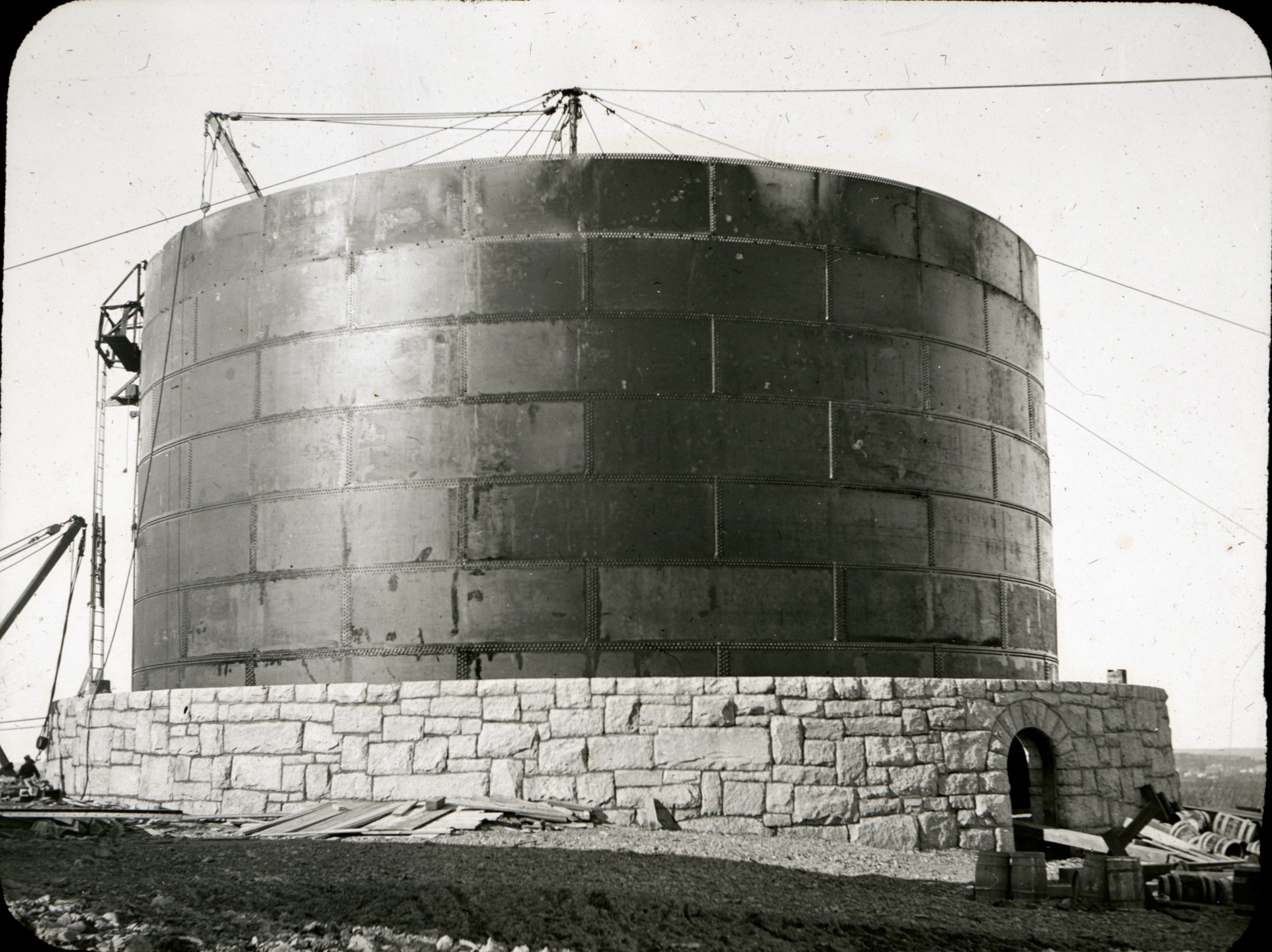 Thomas Hill Standpipe in Bangor, Maine under construction, circa 1897